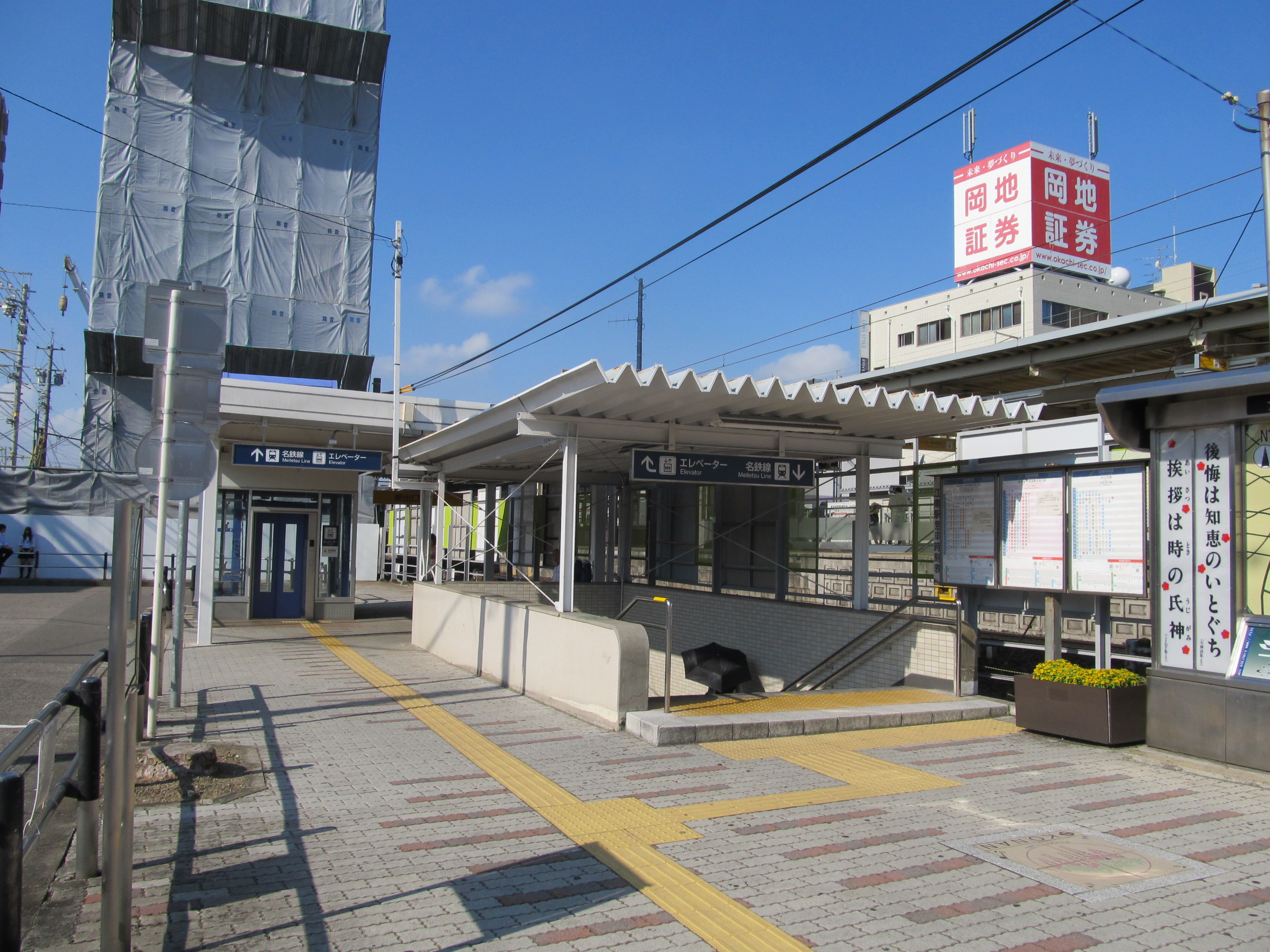 Nagoya Railroad Inuyama Line Kōnan Station East Gate